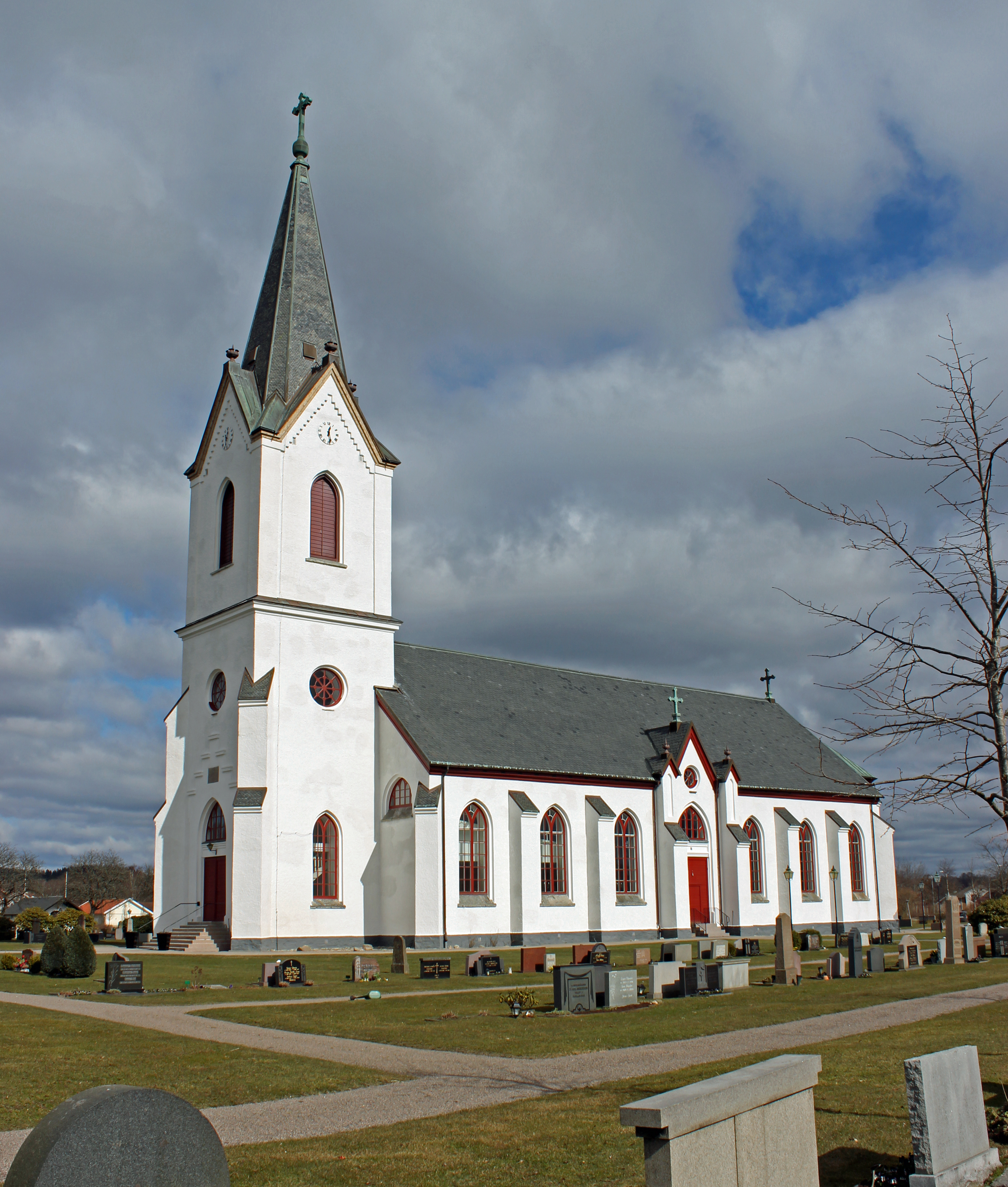 Veddige kyrka (Veddige church) in March 2012.